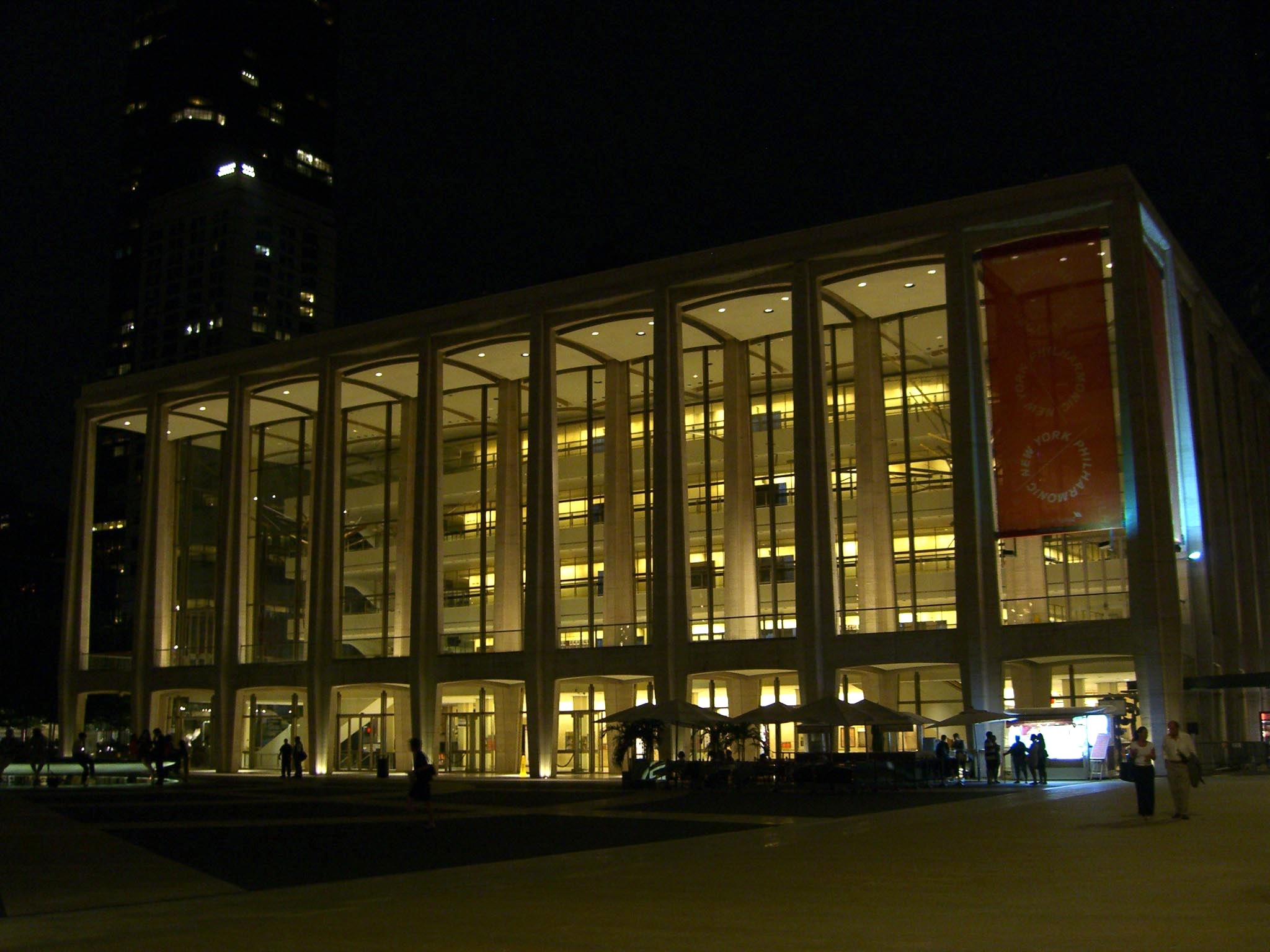 Avery Fisher Hall at Lincoln Center in Manhattan, photographed August 18, 2011.